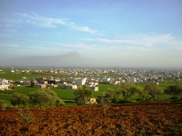 [1] Kurnaz